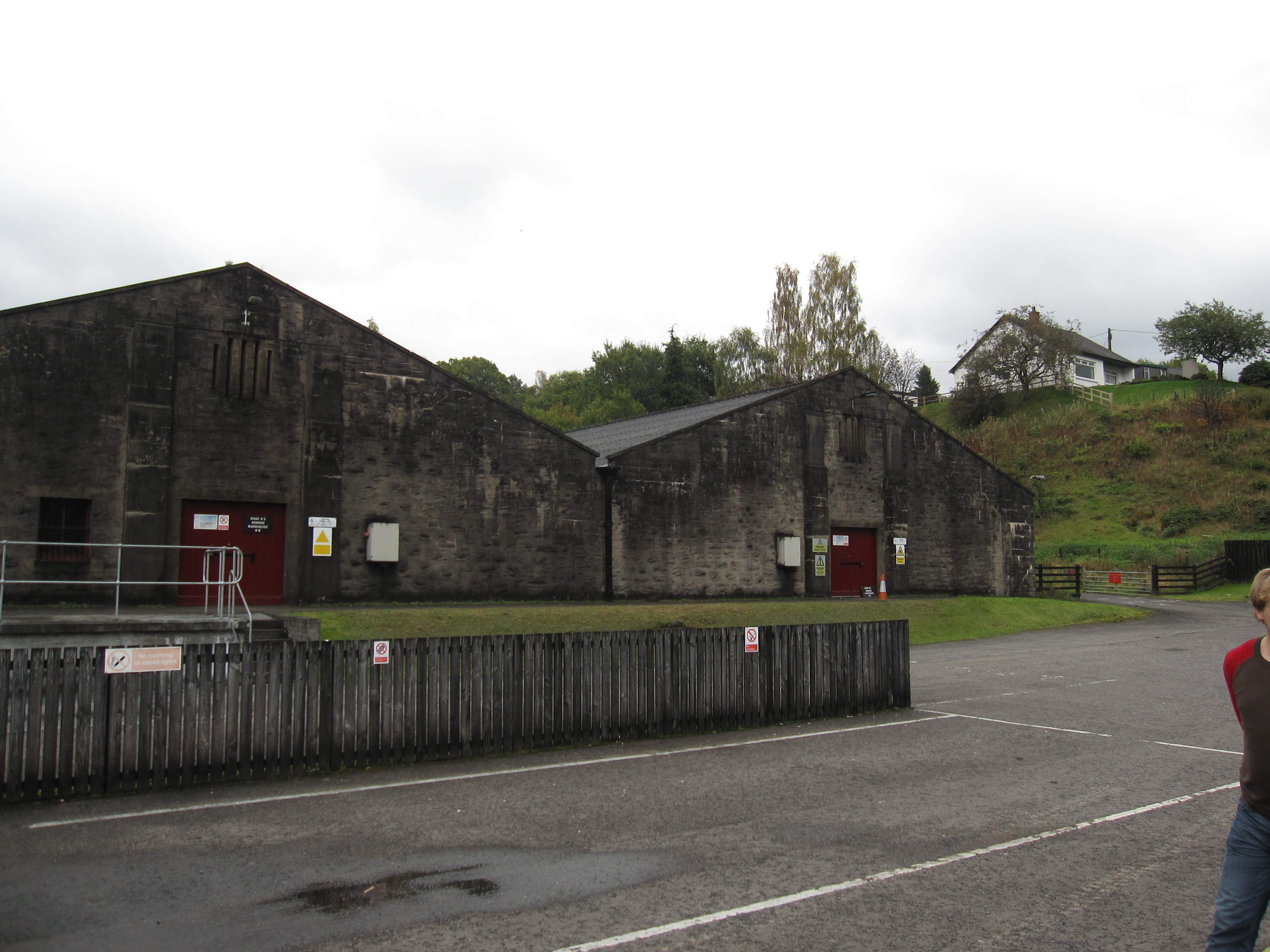 The black walls of the Blair Athol Distillery in Pitlochry, Scotland. The guide explained to us that the black color on the walls of the distillery was actually some kind of fungus, Baudoinia compniacensis, which feeds off the alcoholic vapors from the oak casks inside the buildings. Every year as much as 2% of the whisky evaporates through the wood so that after 12 years, the normal aging time for the Blair Athol Single Malts, only about 75% or three quarters of the original whisky remains in the cask! The rest, as they say, has been shared with the angels. However, a good thing about this evaporation, even if it reduces the strength of the whisky in the cask, is that it's the most volatile alcohols that evaporate first, those that slash & burn. So the Angel's Share is really not such a bad thing.